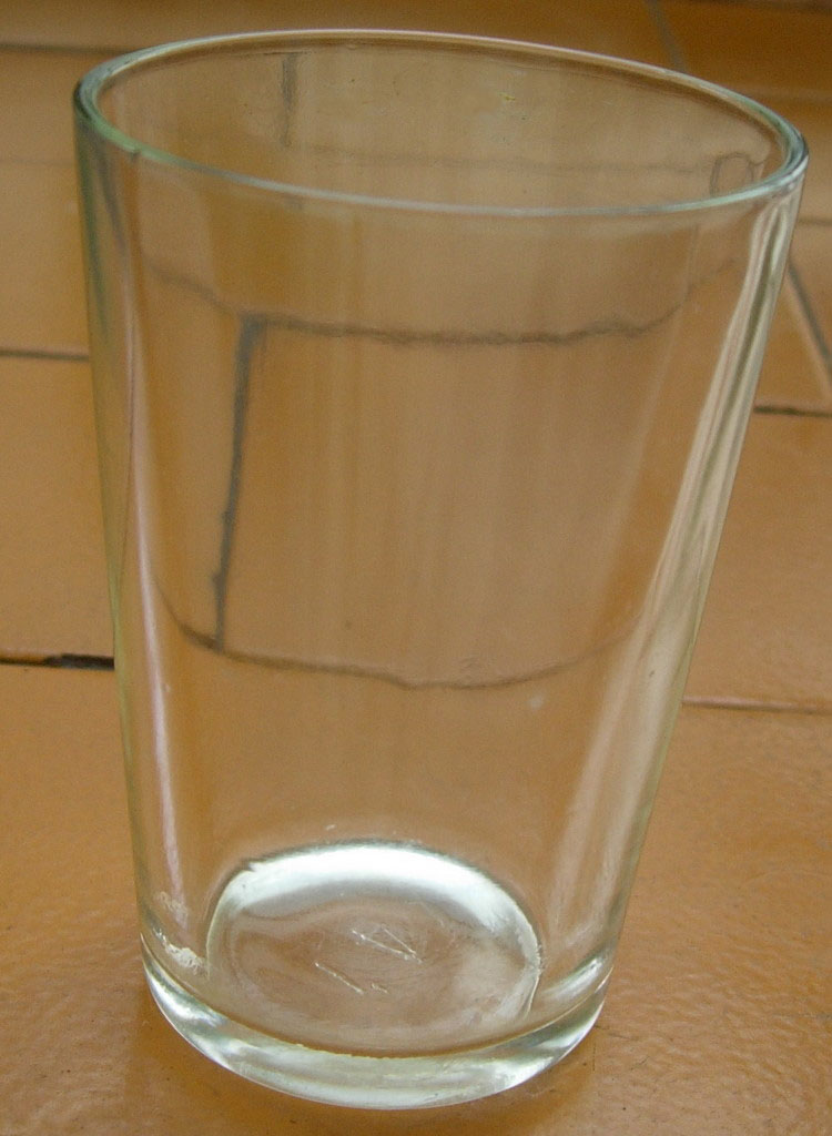 glass cup